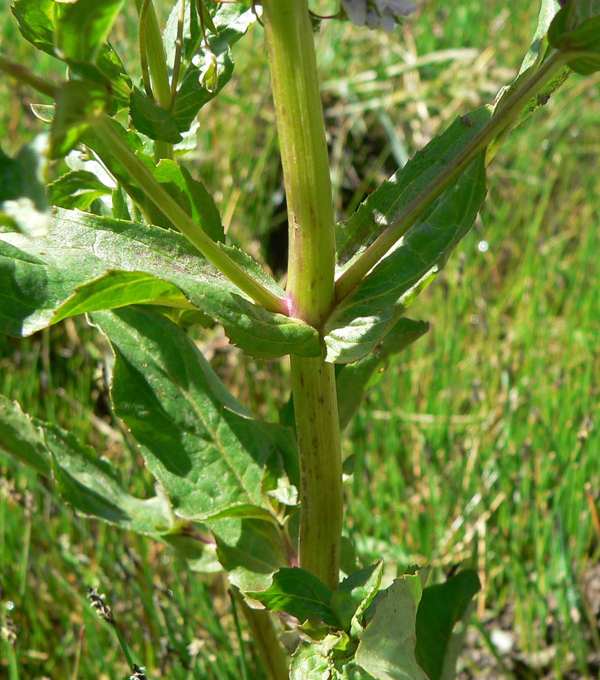 Veronica anagallis-aquatica at Potosi Spring, 4 km west of Potosi Mountain's summit, Spring Mountains, southern Nevada (elev. about 1700 m)